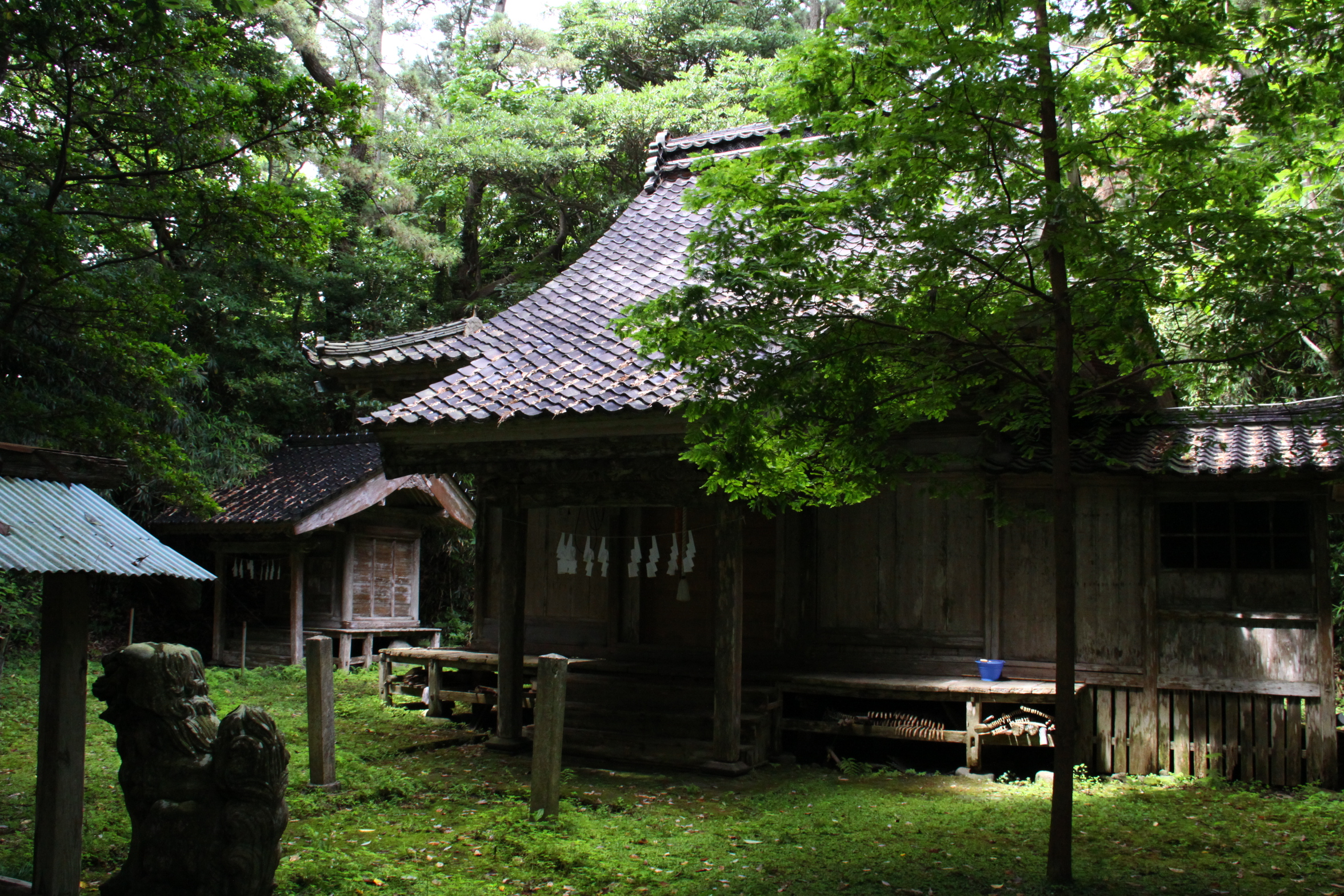 Precincts of Omonoimi jinja in Tobishima, Sakata, Yamagata.